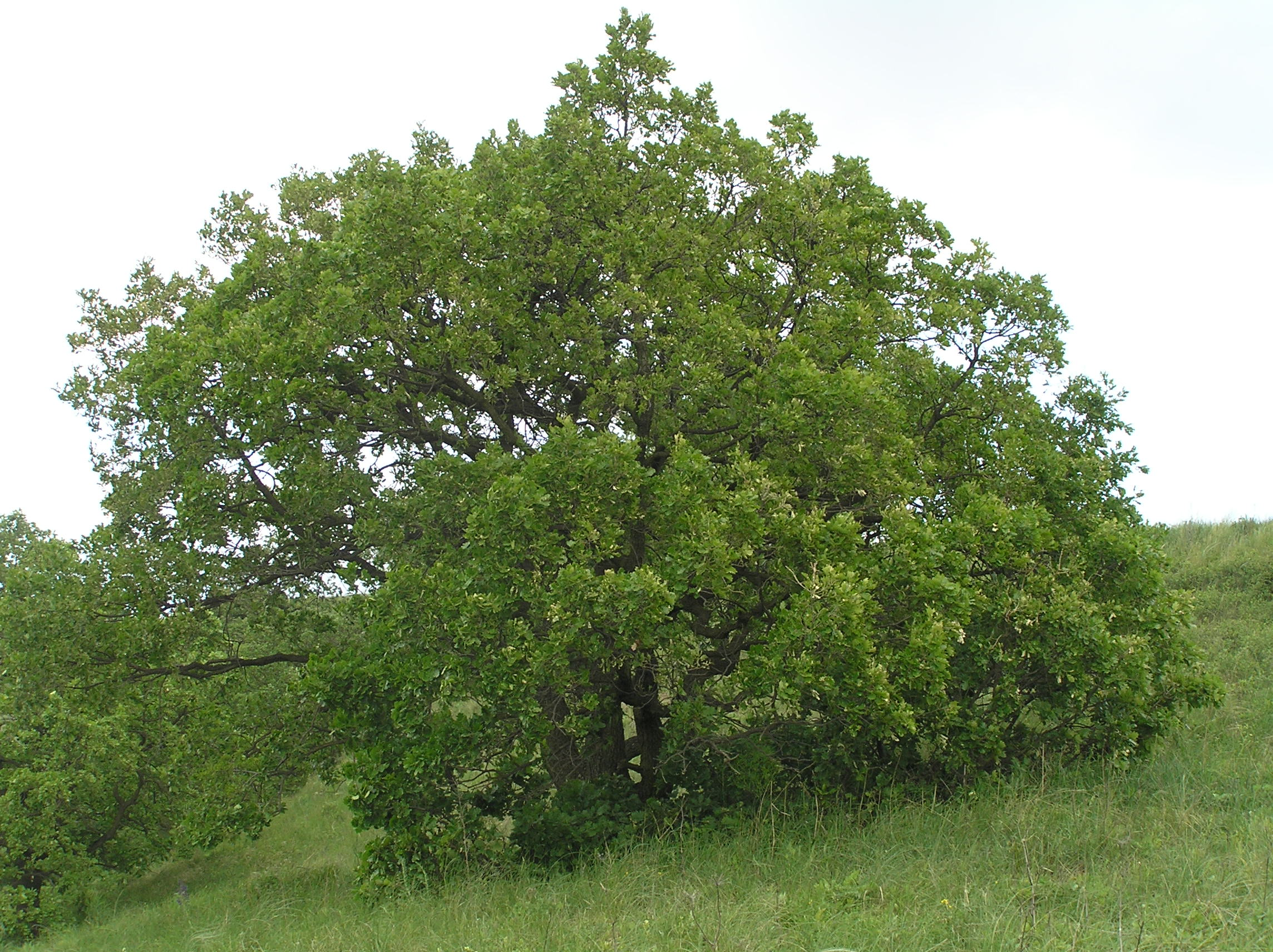 Quercus pubescens, Pouzdřany, Southern Moravia, Czech Republic